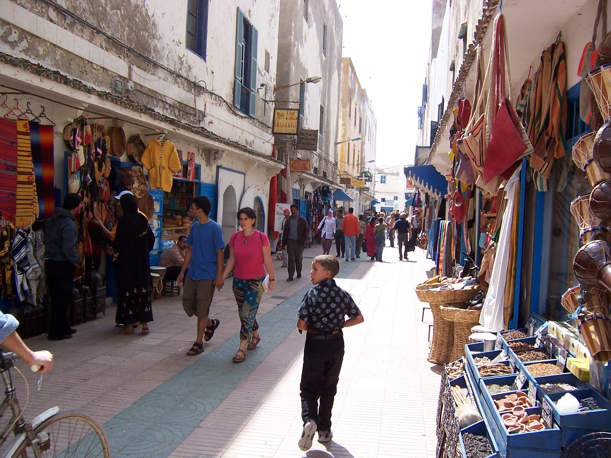 Essaouira, Morocco. Street in the Medina (souk).